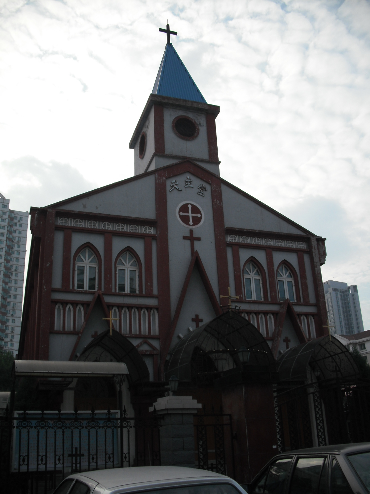 Front of the Fuxinzhuang Church.